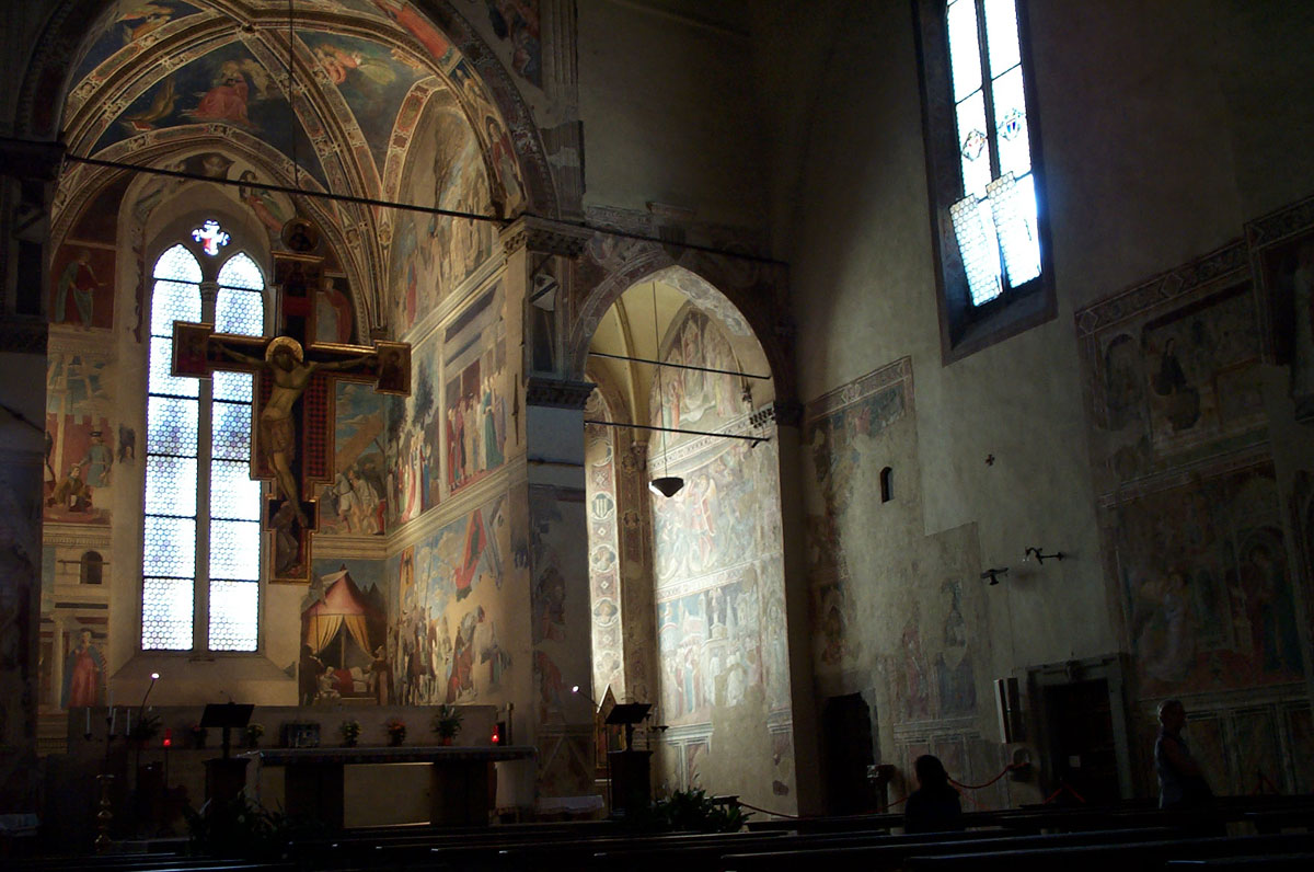 The Bacci chapel and its frescos by Piero della Francesca in the Basilica di San Francesco in Arezzo (Italy).